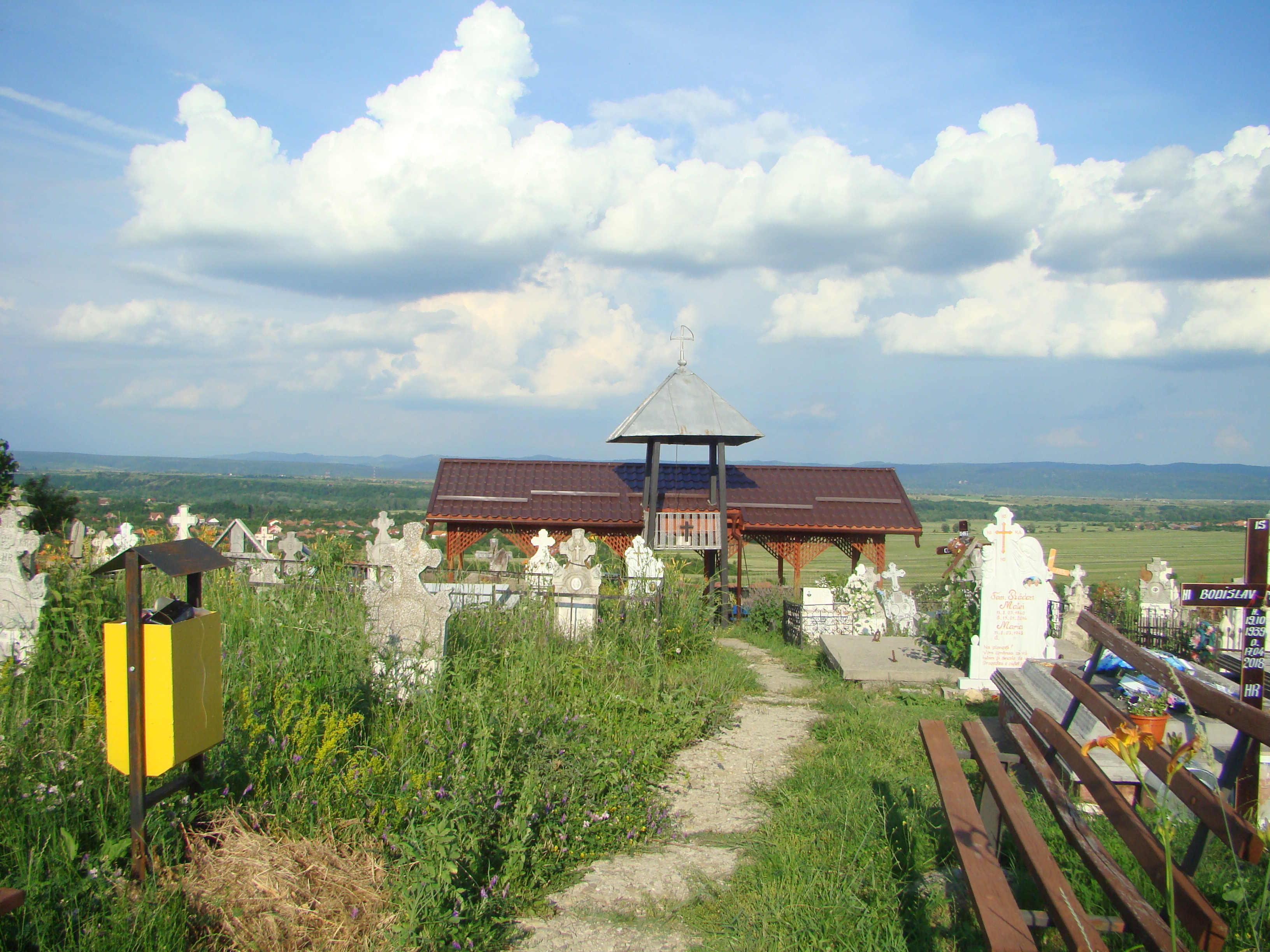 Wooden church in Bobu-Gorgania, Gorj county, Romania